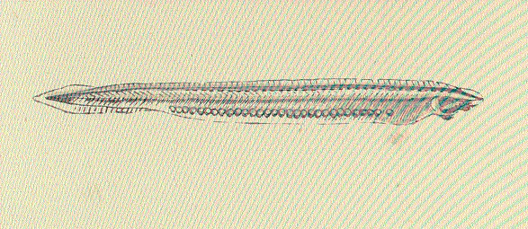 Lancelet Amphioxus lanceolatus Branchiostoma lanceolatum Subject: Cephalochordata, Amphioxus Tag: Fish